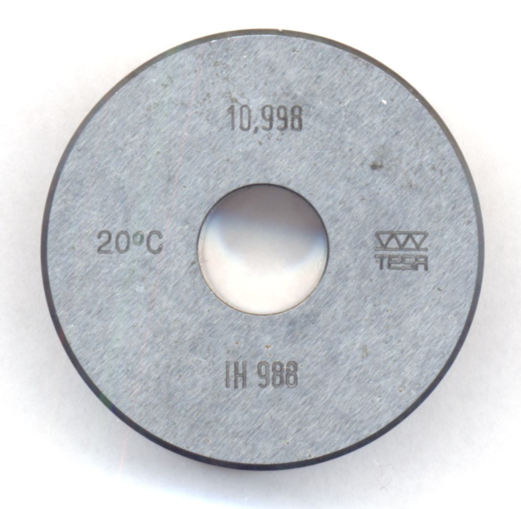 Master ring for TESA 3-point inner micrometer